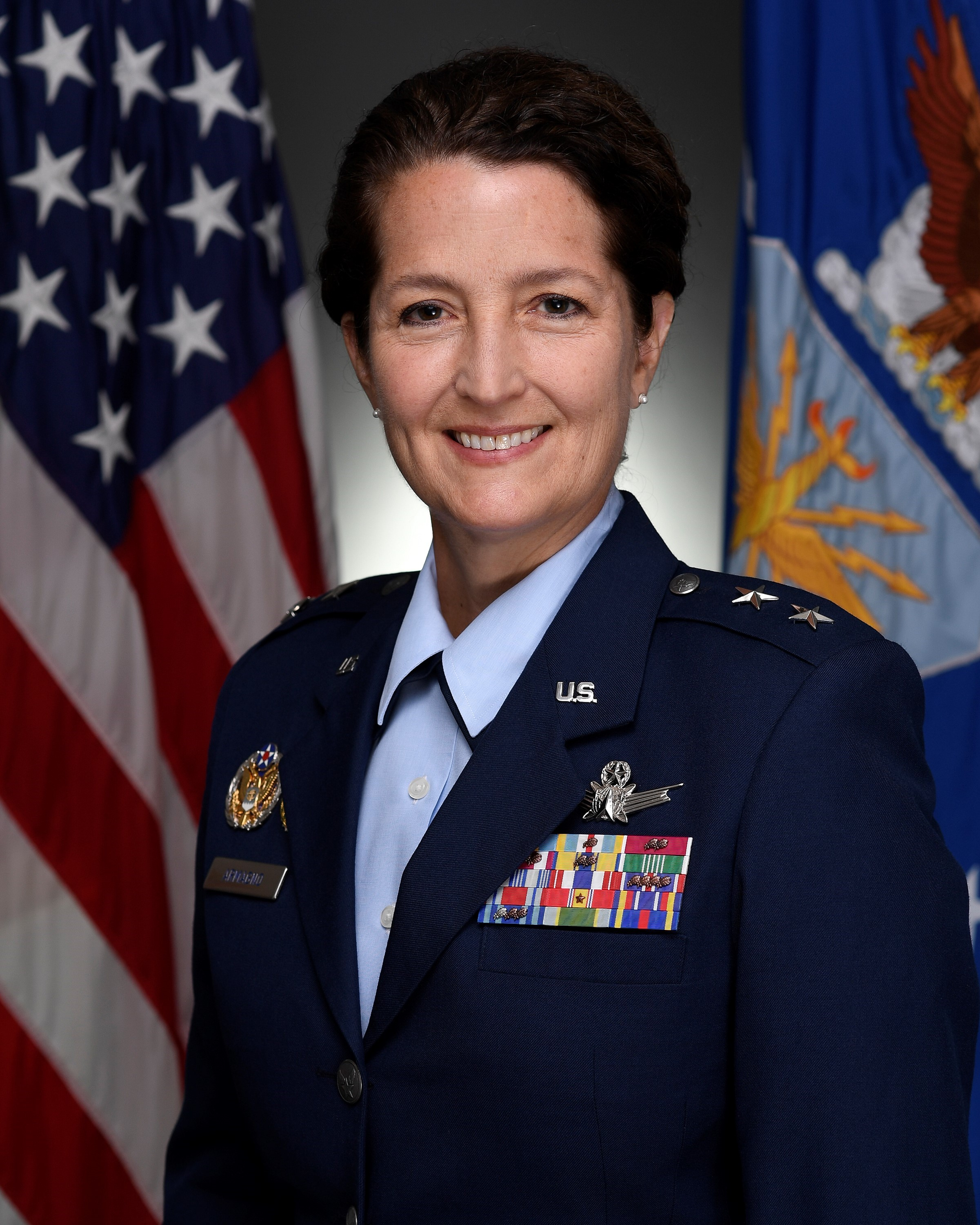 Official portrait of Maj Gen Nina M. Armagno.